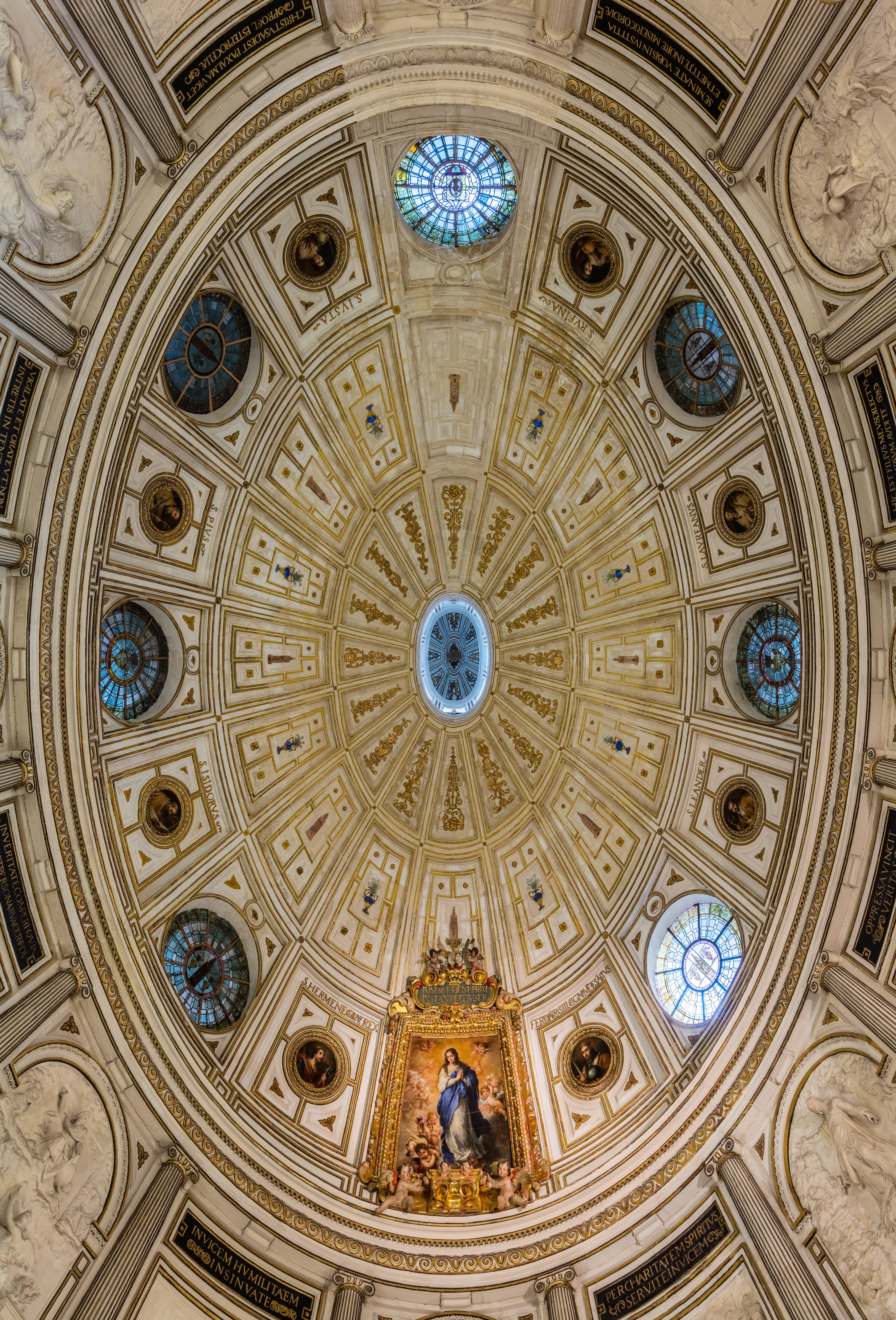 Dome of the chapter house, Cathedral of Seville, Seville, Spain. The construction of the chapter house was started by Hernán Ruiz II but finished by Asensio de Maeda in 1592. The decoration of the dome is work of the prestigious painter Murillo and dates from 1667. The 8 circular oil paintings show 8 saints from Seville (San Hermenegildo, San Fernando, San Leandro, San Isidoro, San Laureano, Santa Justa, Santa Rufina and San Pio), whereas the bigger rectangular picture in the center depicts the Immaculate Conception.